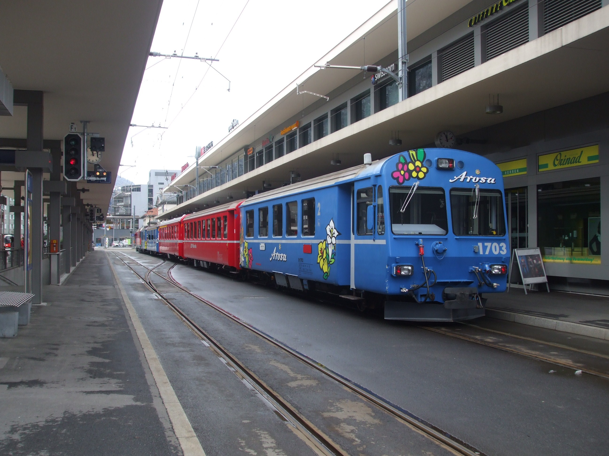 Driving trailer at the rear of a train on the Arosa line awaiting departure at Chur station. Street running for some distance east of Chur.